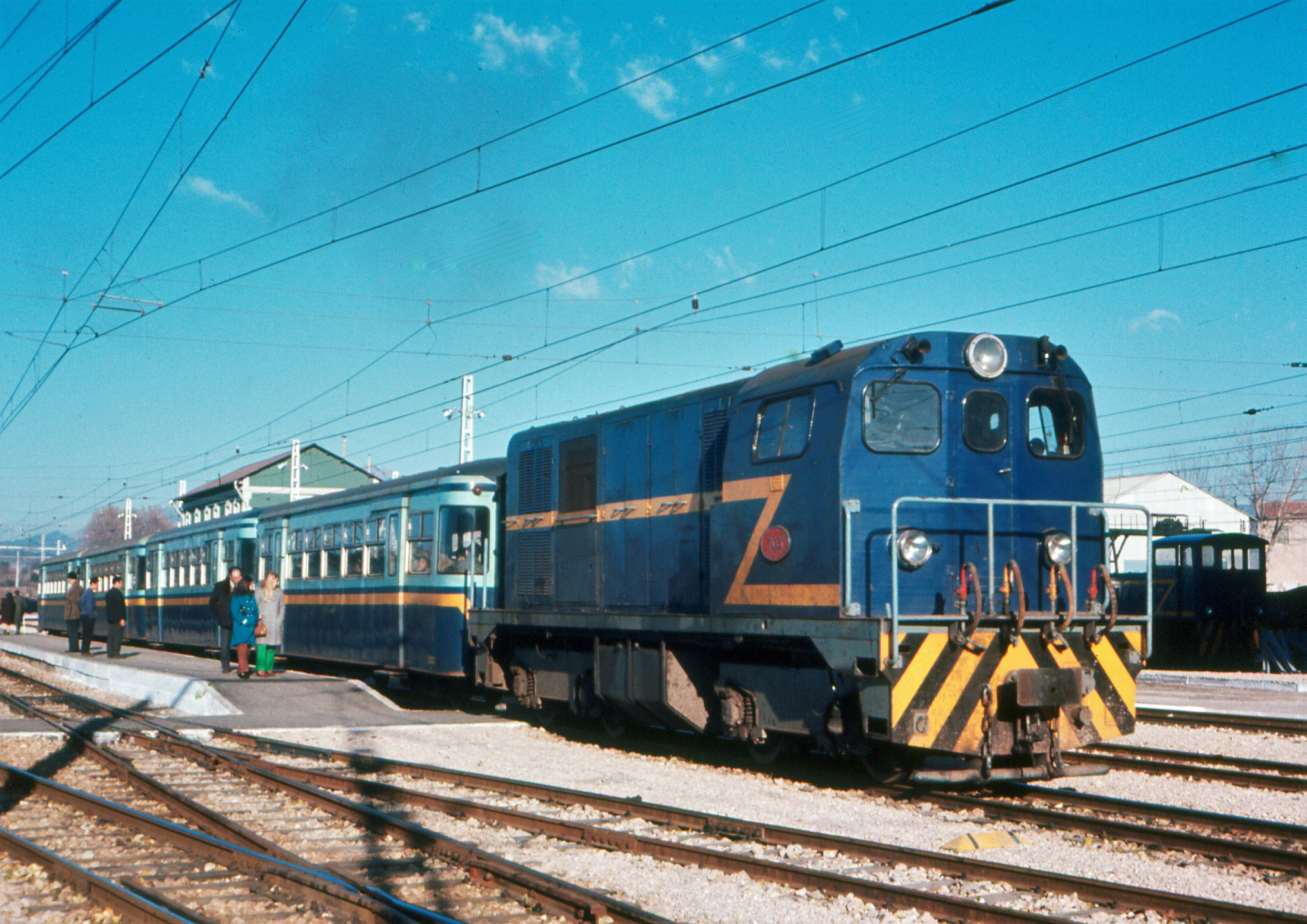 Diesel locomotive 703 of the Compañía General de los Ferrocarriles Catalanes (CGFC), at the Martorell-Enllaç station, towing a passenger train with a consist of four metal cars.